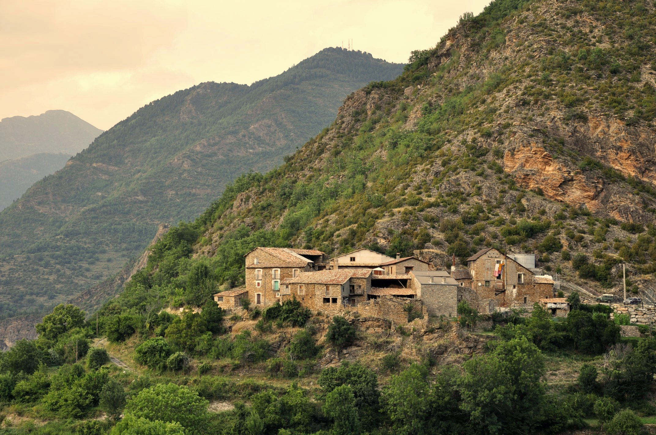 The village of Iran in the Pyrenees (municipality El Pont de Suert, district of Alta Ribagorça, Catalonia, Spain).